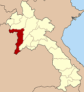 Map of Laos highlighting the province Xaignabouli.